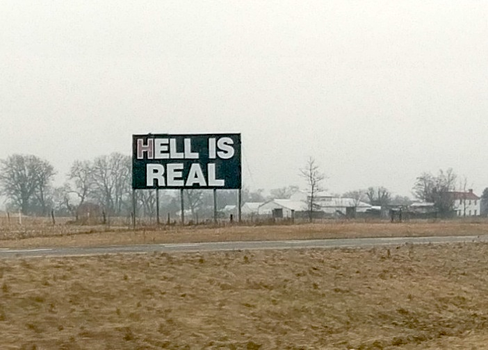 The "Hell Is Real" sign that appears on Interstate 71 between Cincinnati and Columbus.